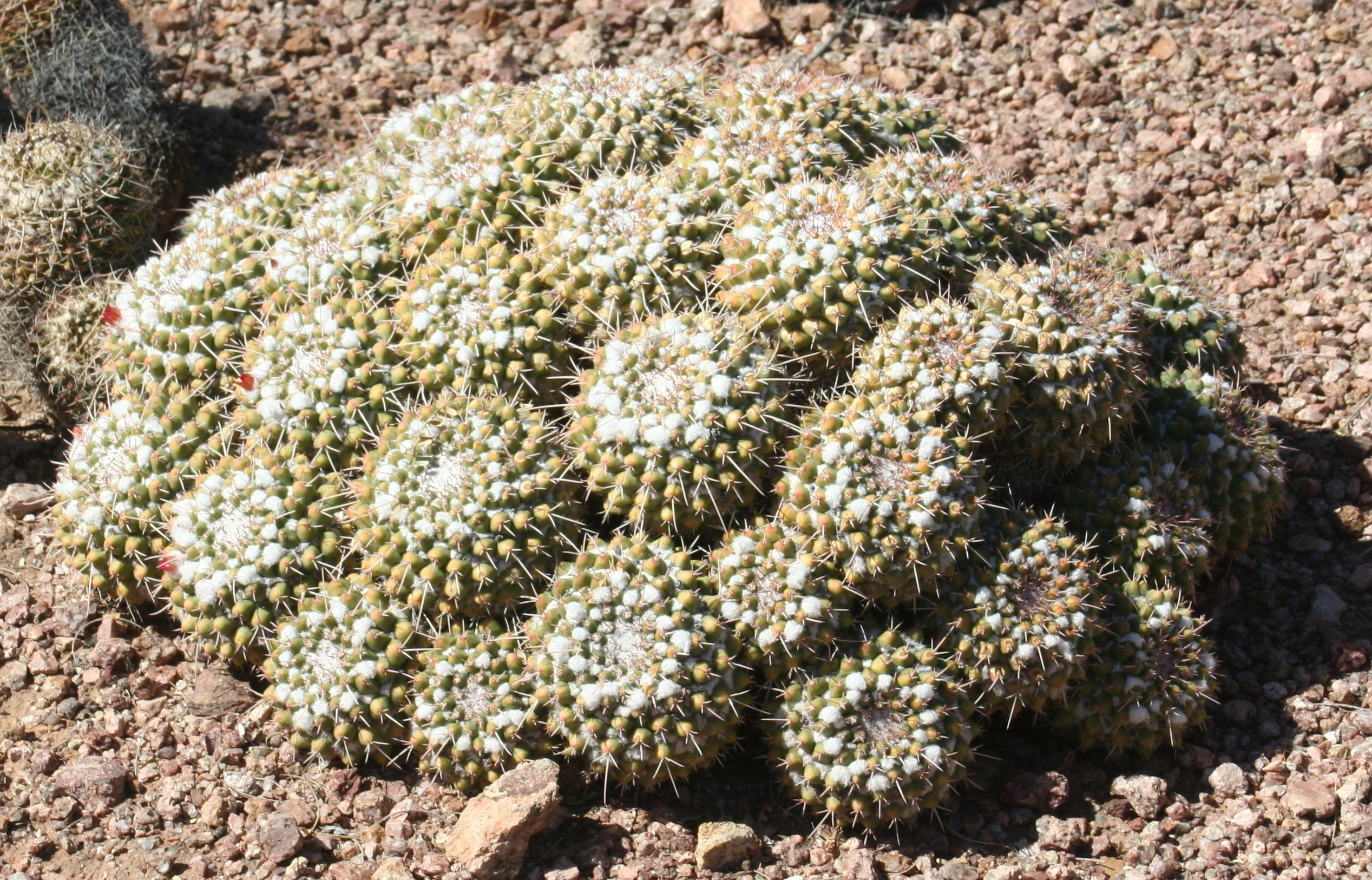 Mammillaria polythele ssp. durispina; native to Central Mexico. Photographed at the Desert Botanical Garden, Phoenix, AZ.